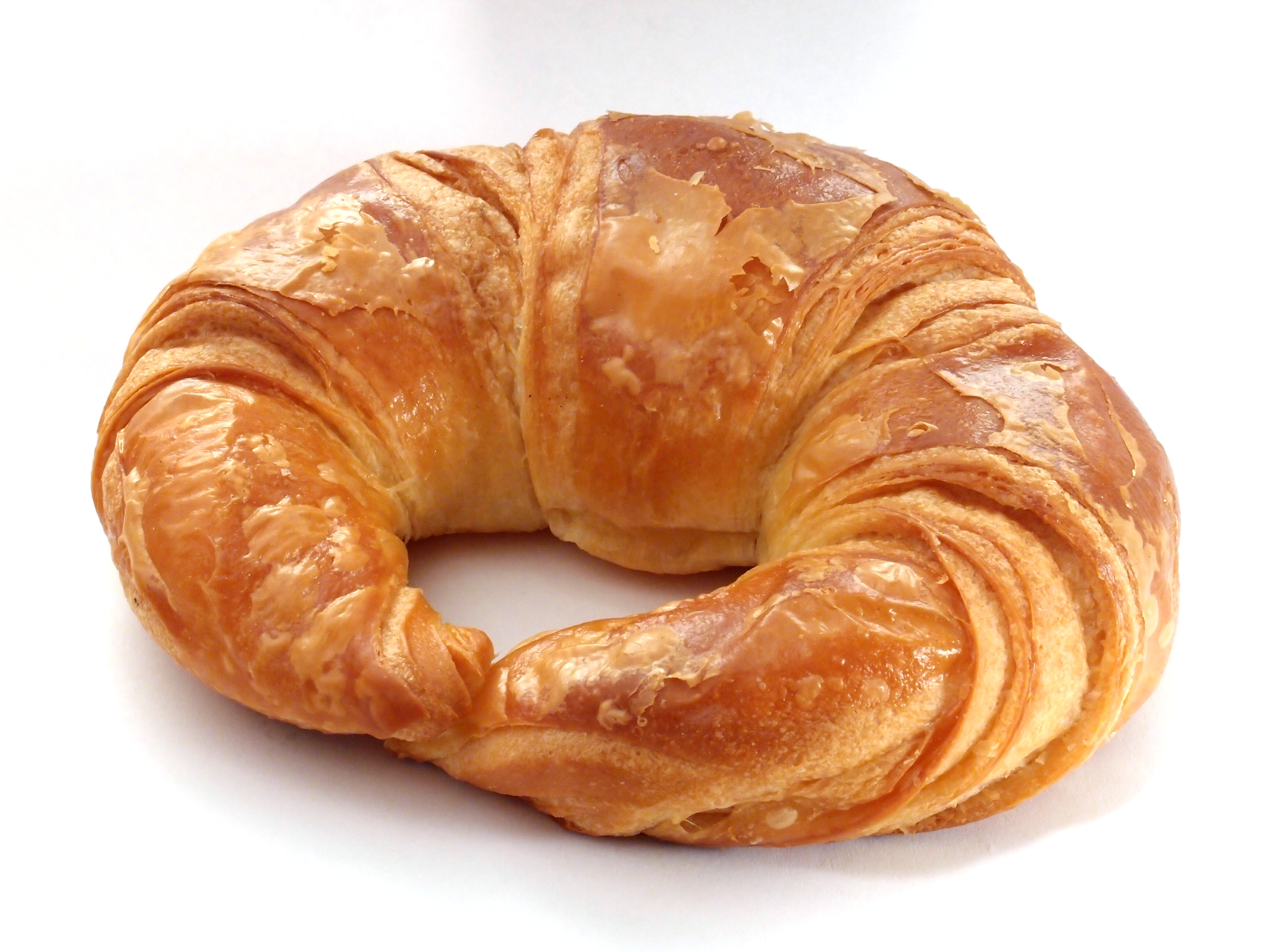 A croissant, a crescent-shaped French pastry made from laminated, yeast-leavened dough. This particular specimen was made by a Hamburg bakery. It is a butter croissant, containing no margarine.